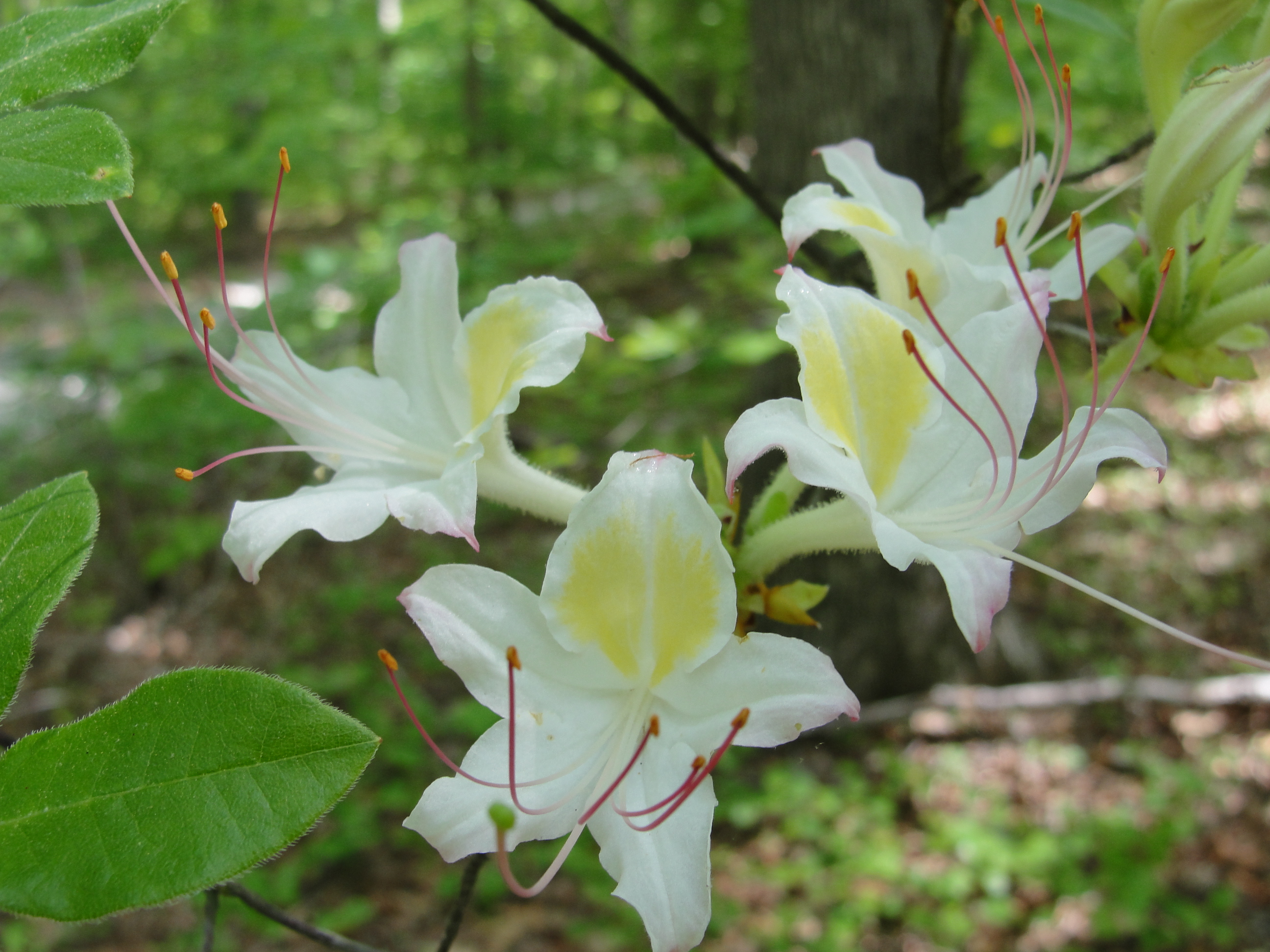 Photo credit to Dr. Charles Horn